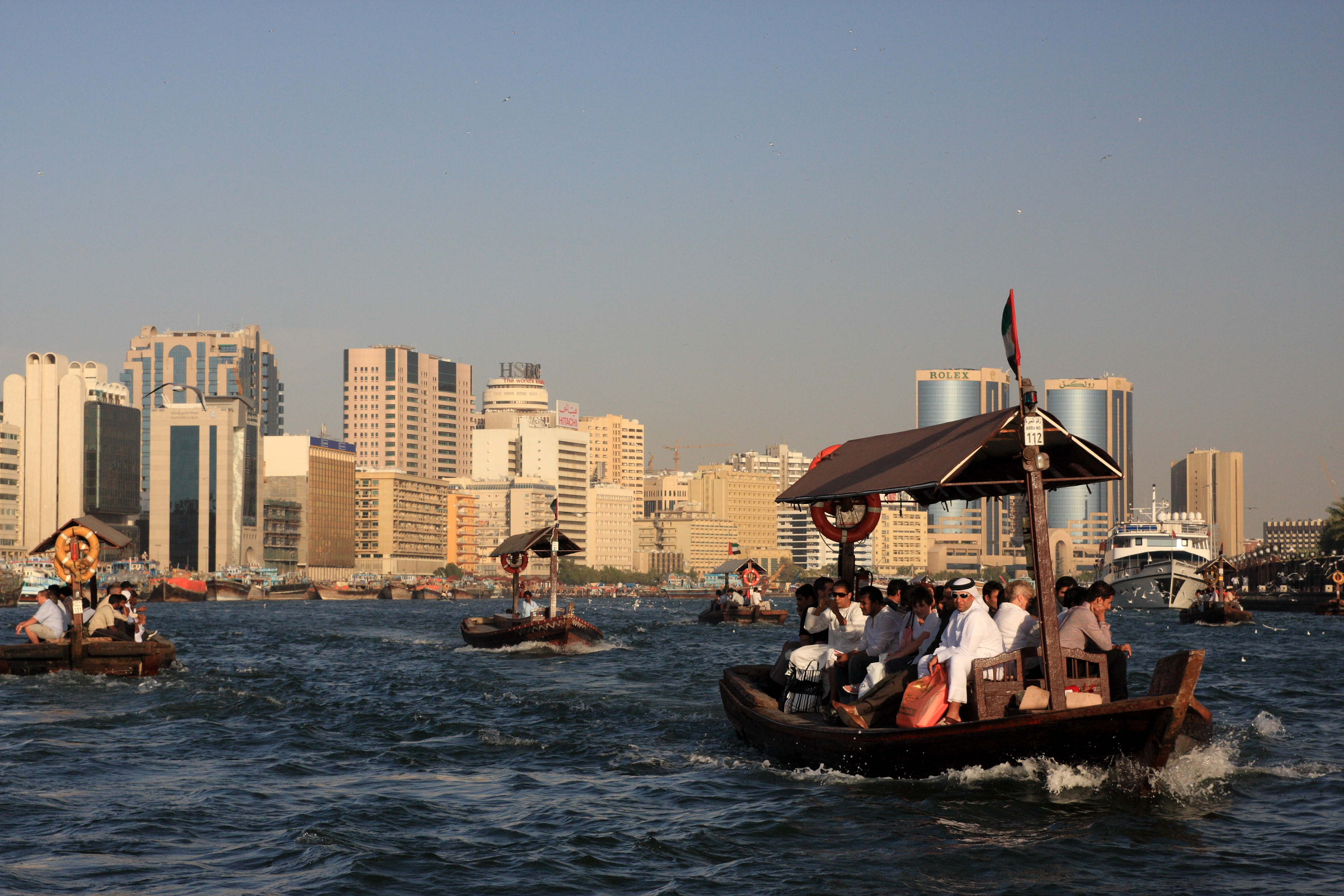 Abras on Dubai Creek